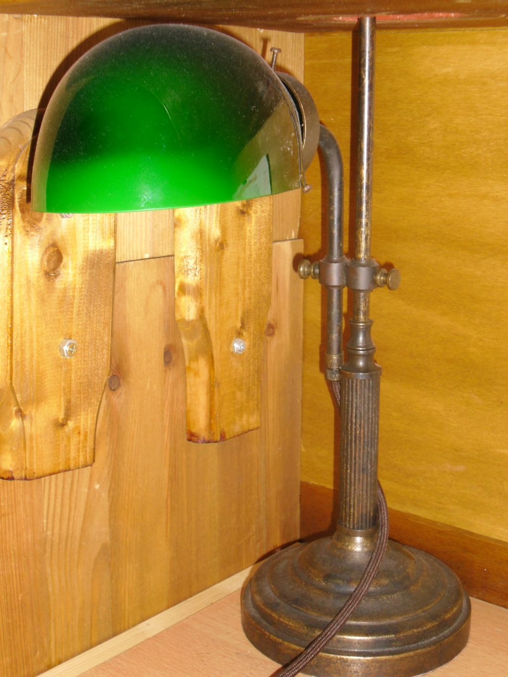 Banker´s lamp made of brass non classical design